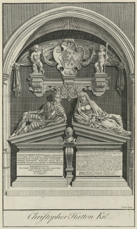 Monument to Sir Christopher Hatton and Alice Hatton (née Fanshawe) in Westminster Abbey